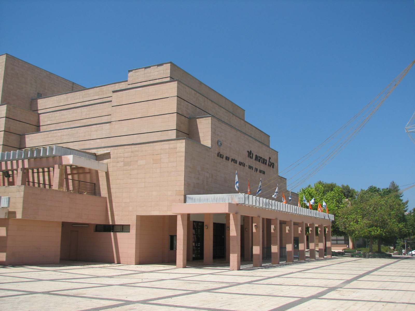 Culture Center - Tel Hanan neighborhood in the city Nesher